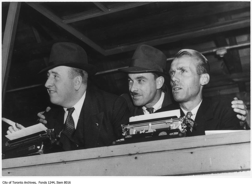 Photographer: William James ca. 1930 City of Toronto Archives Fonds 1244, Item 8016